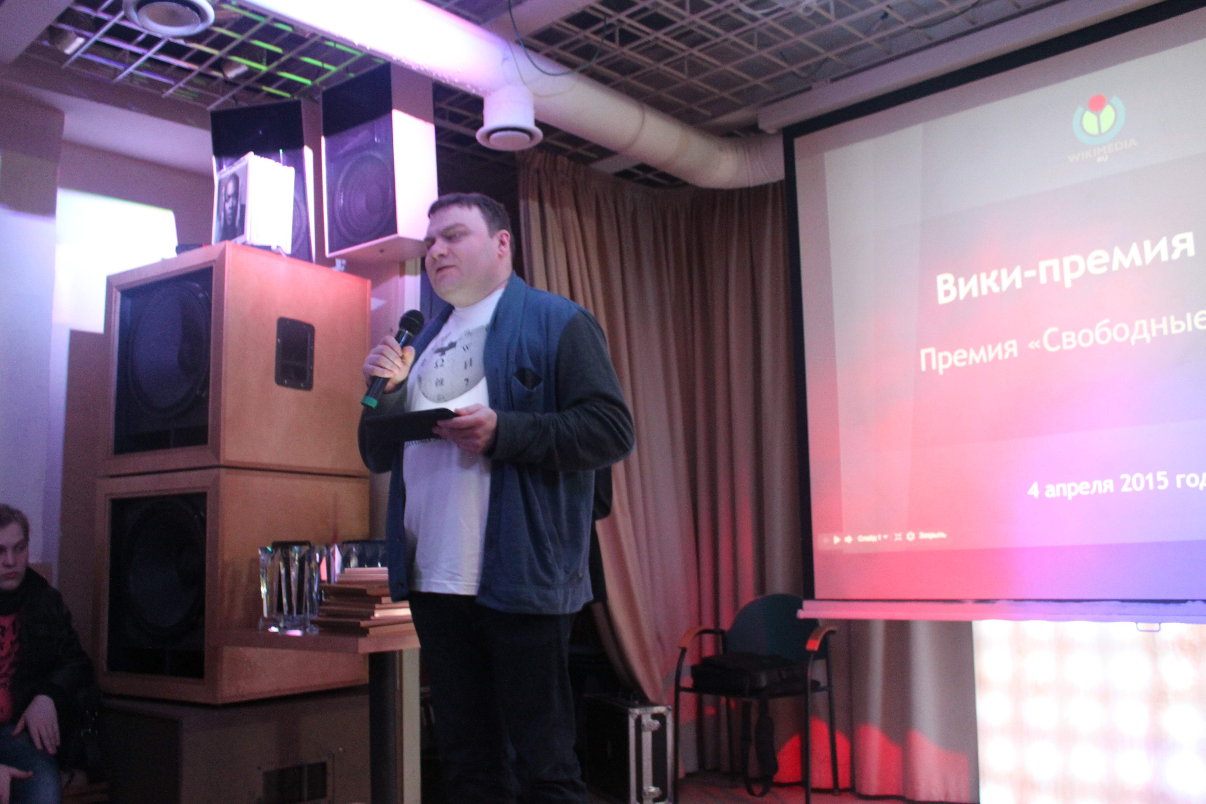 Wiki-award 2015.